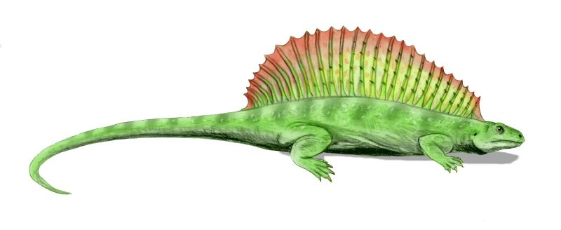 Ianthasaurus hardestii, a pelycosaur from the Late Carboniferous of North America, pencil drawing